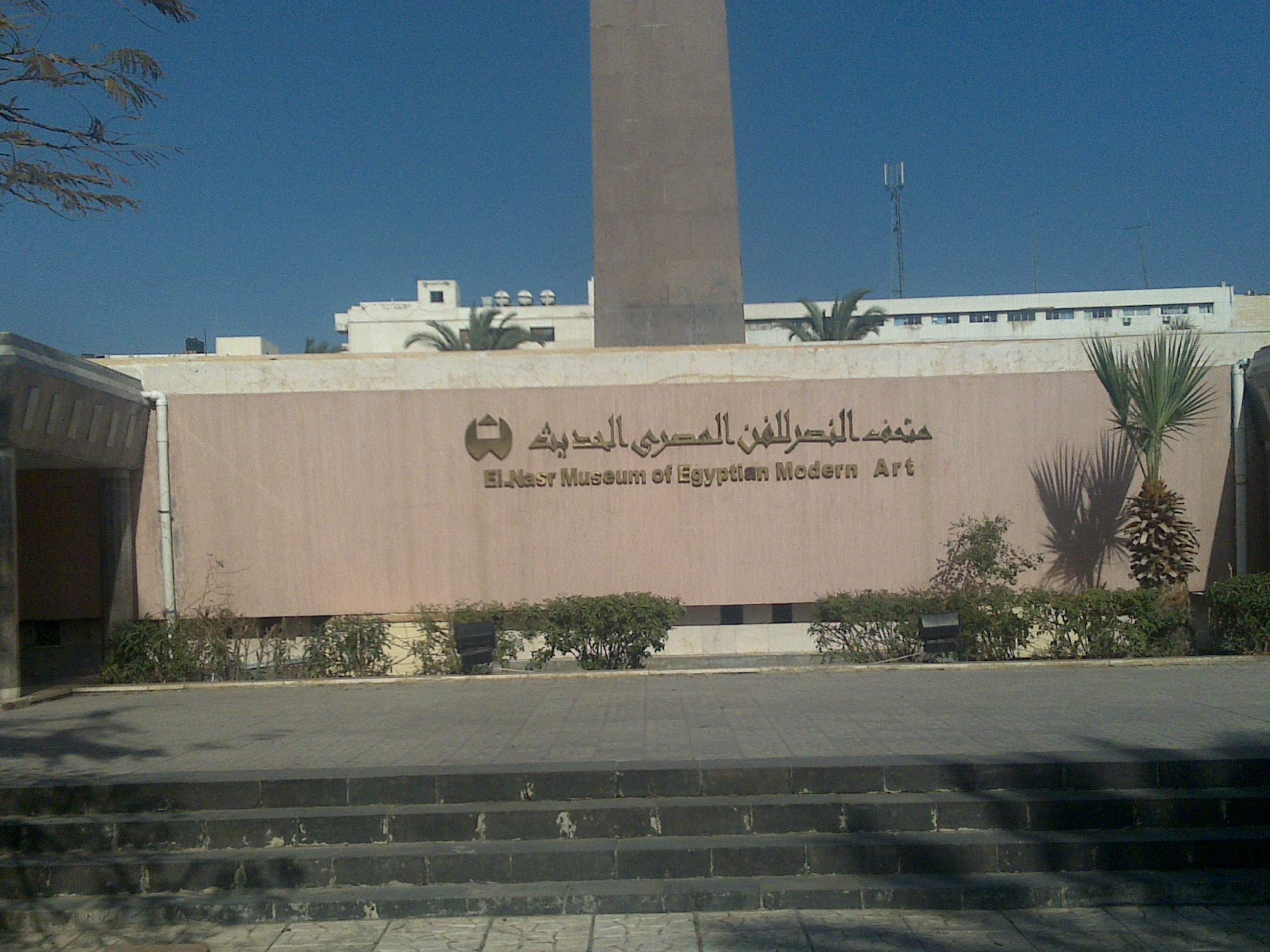 El-Nasr Museum of Modern Art in Port Said